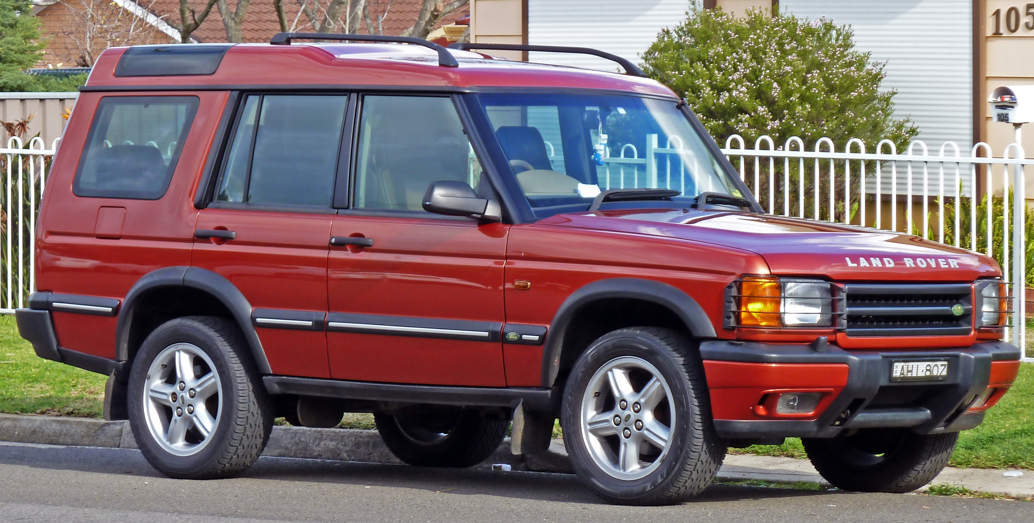 1998 Land Rover Discovery II V8 5-door wagon. Photographed in Allawah, New South Wales, Australia. This is a retouched picture, which means that it has been digitally altered from its original version. Modifications: Brightened and sharpened.